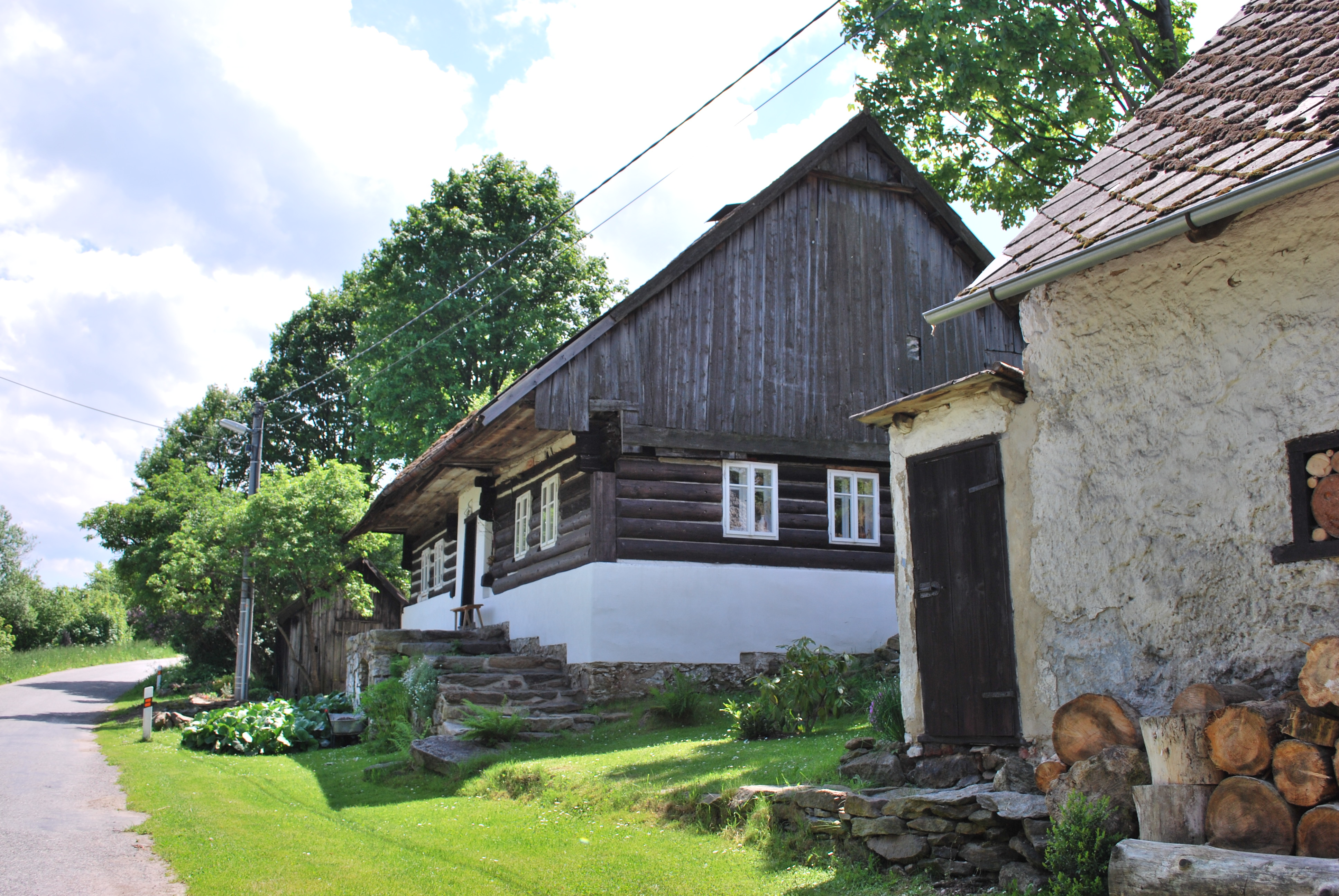 Maleč, part of village Strašín in Klatovy District, Czech republic. This photograph was taken within the scope of the 'Czech Municipalities Photographs' grant. - Google Maps - Google Earth